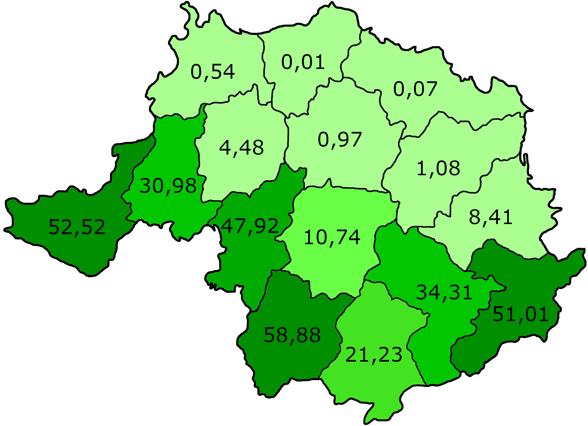 Ukrainian language in Kursk Governorate according to 1897 census.